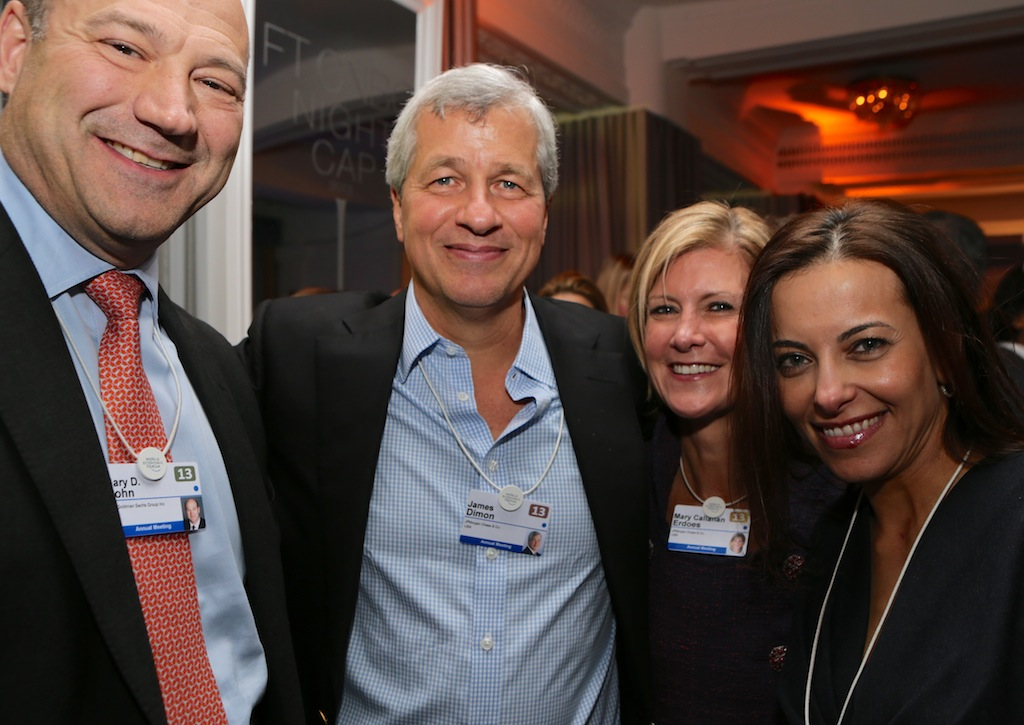 Gary Cohn, president and COO, Goldman Sachs; James Dimon, chairman, president and CEO, JP Morgan; Mary Callahan Erdoes, CEO, JP Morgan Asset Management; Dina Habib Powell, global head of corporate engagement, Goldman Sachs